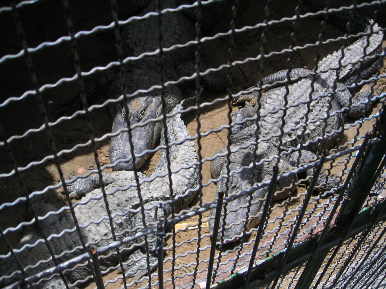 Photo: Soman